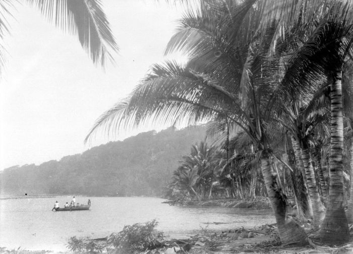 Coconut palm trees at the coast of Sawarna